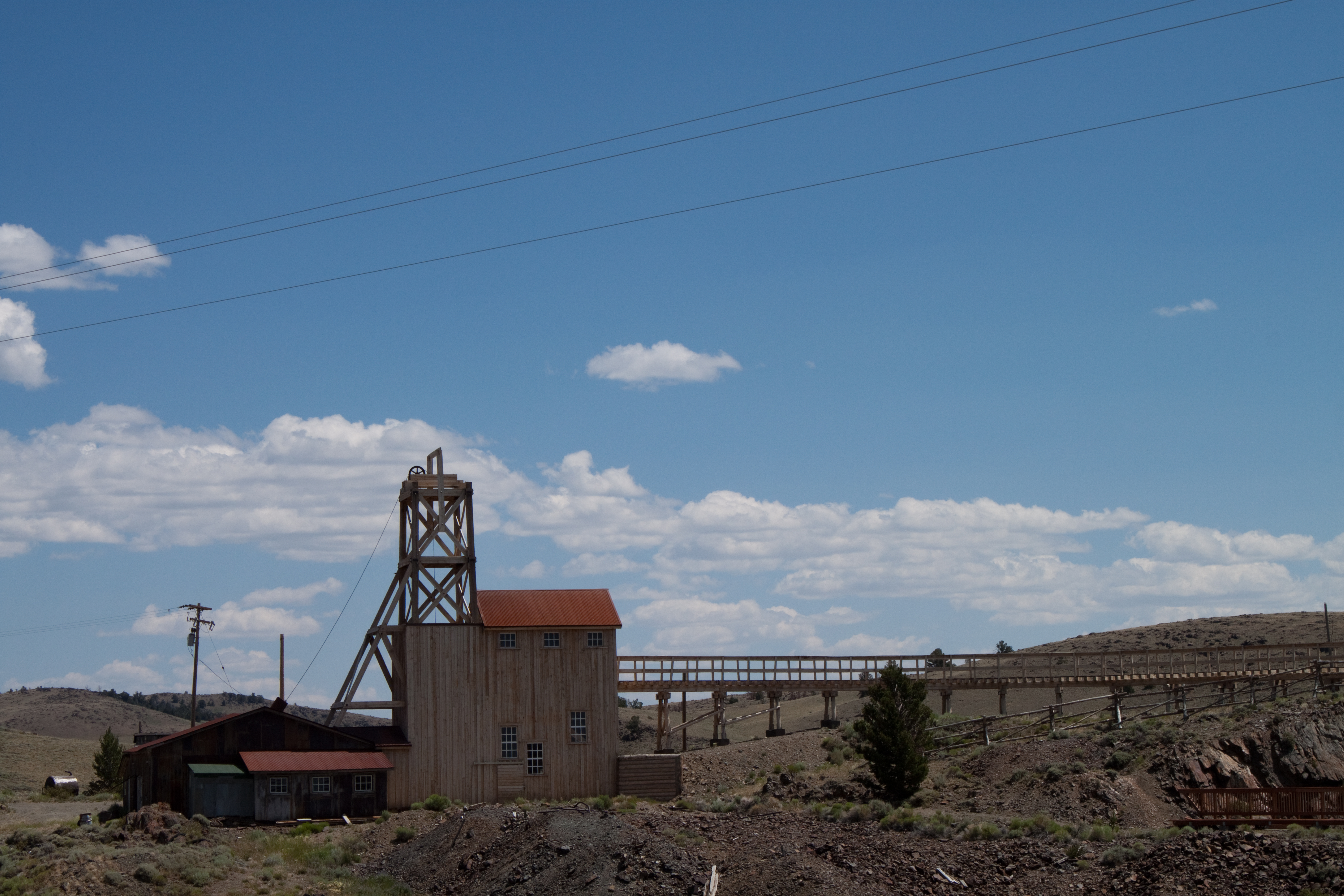 South Pass City, Wyoming, USA